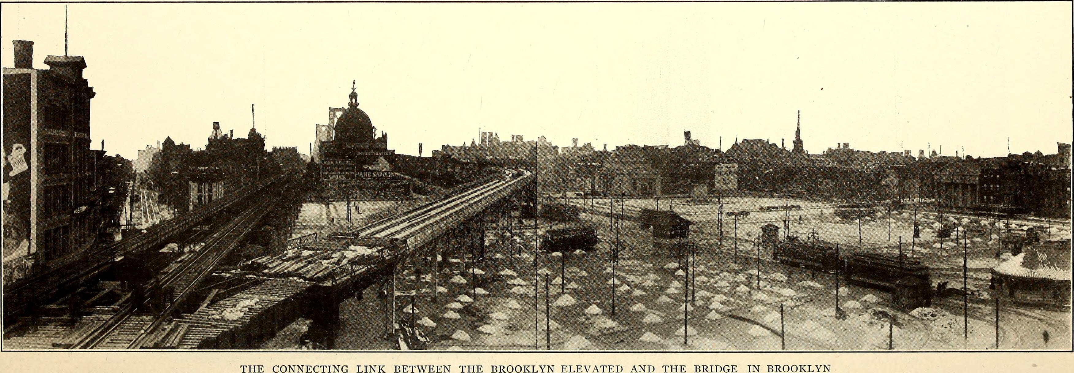 Title: The Street railway journal Year: 1884 (1880s) Authors: Subjects: Street-railroads Electric railroads Transportation Publisher: New York : McGraw Pub. Co. Text Appearing Before Image: rlocking plant with six levers for oper-ating three single switches and eight signals. The machinewill be equipped with the usual track model and with twoworking semaphores to show the condition of the track forclearing the main line. The tower will be of concrete andwill be located at the throat of the station. The power out-fit will consist of two motor-driven air compressors. Amechanical counter will also be installed to record the num-ber of trains and cars entering and leaving the station. The interior finish of the terminal is of glass tile similarto that used in the subway. Incandescent lights will be usedthroughout, the fixtures being for both single and double4amps. Power will, of course, be taken from the lines ofthe Brooklyn Rapid Transit Company, but a connectionwith the Edison mains in New York has been provided sothat a cut-over can be readily effected. To facilitate the early opening of the station to the sur-face cars, the latter will be diverted for a time to the ele- Text Appearing After Image: April iir i9o8.) STREET RAILWAY JOURNAL.